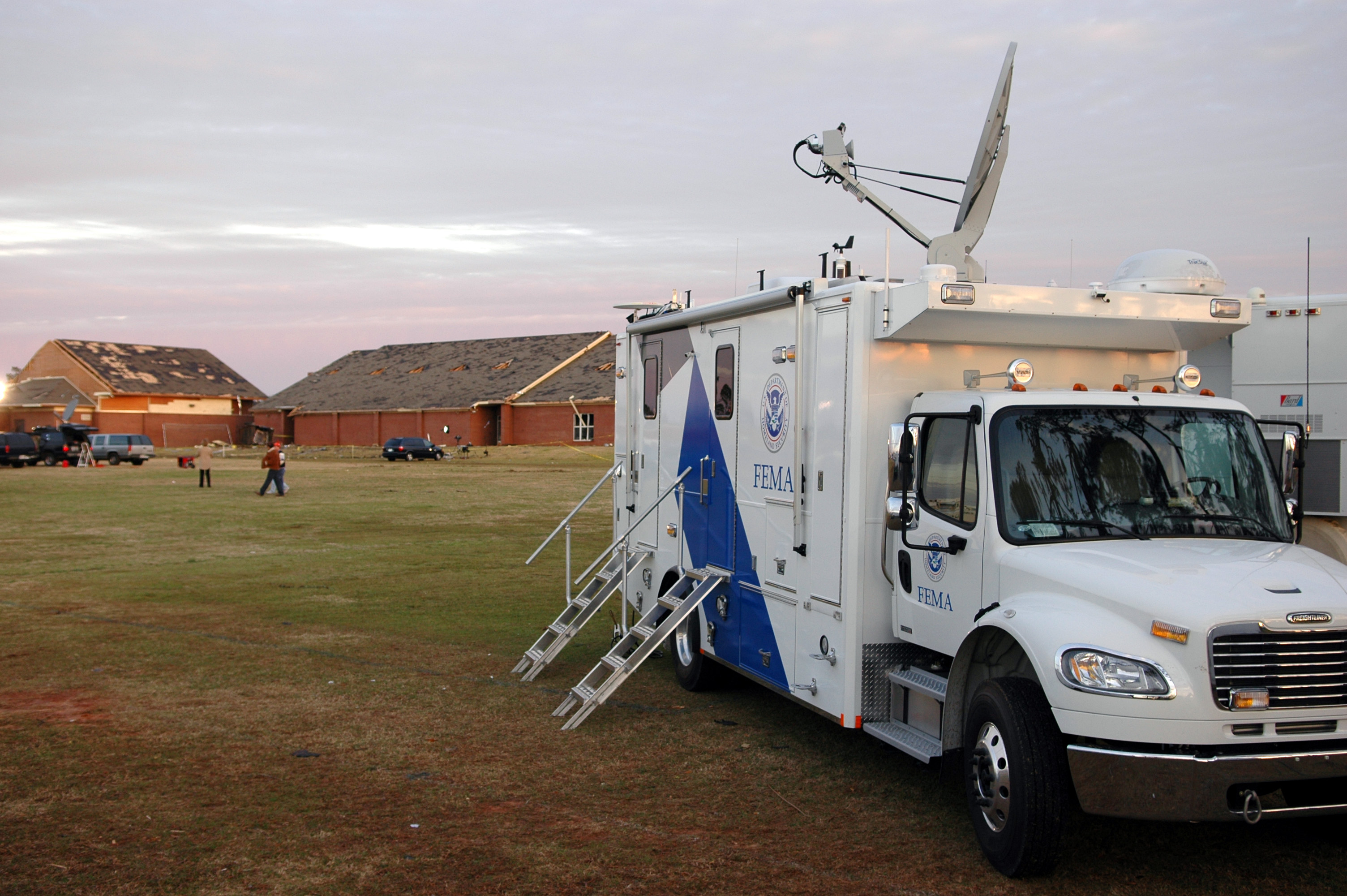 Enterprise, AL, March 3, 2007 -- The FEMA Mobile Emergency Response Support (MERS) vehicle at Enterprise High School this morning. The MERS vehicle is has satellite communications to stay connected with FEMA's computer network in all disaster situations. Mark Wolfe/FEMA